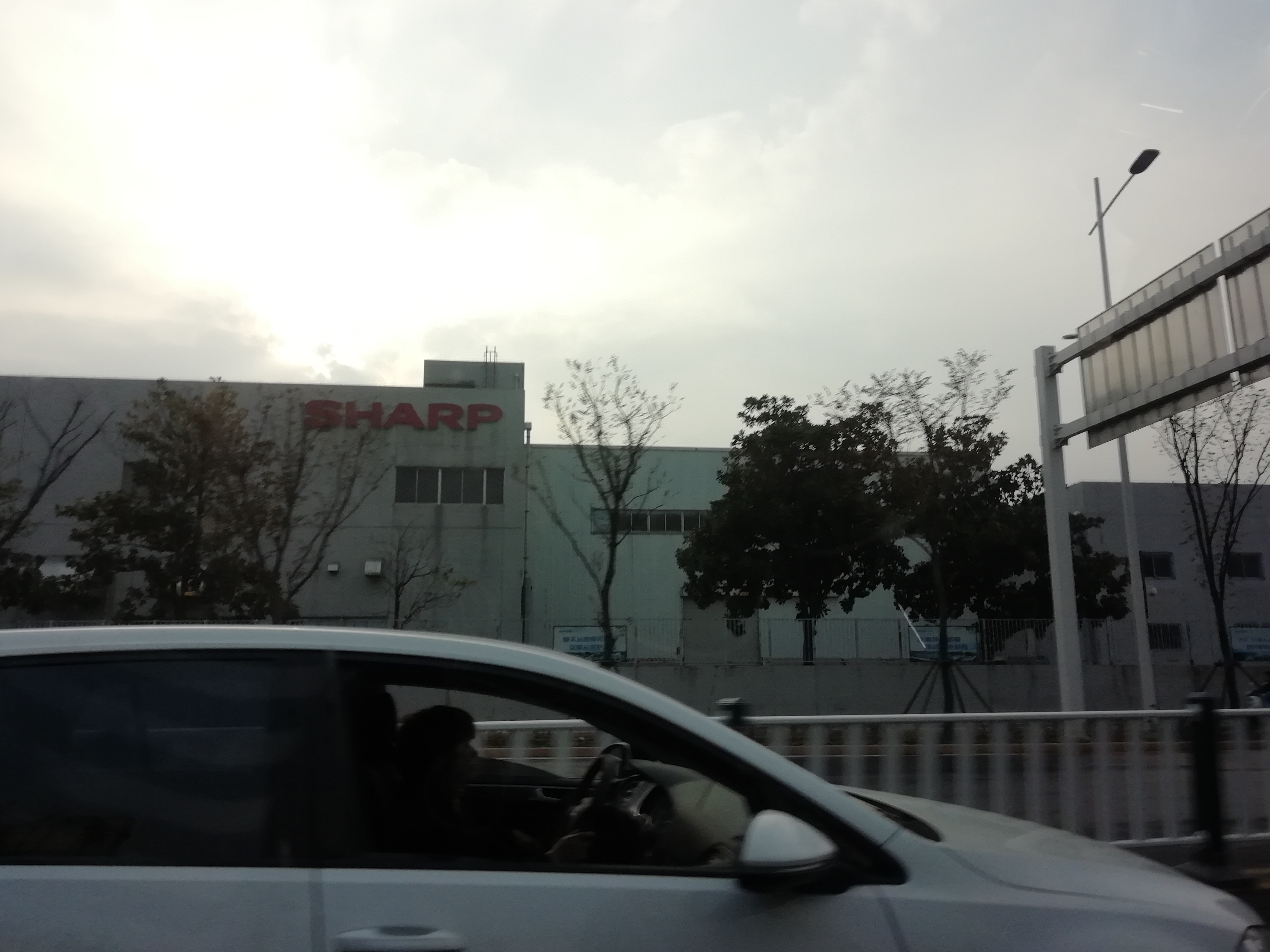 A Sharp Factory located in Changshu, Jiangsu. 中文（中国大陆）: 位于江苏常熟的夏普工厂